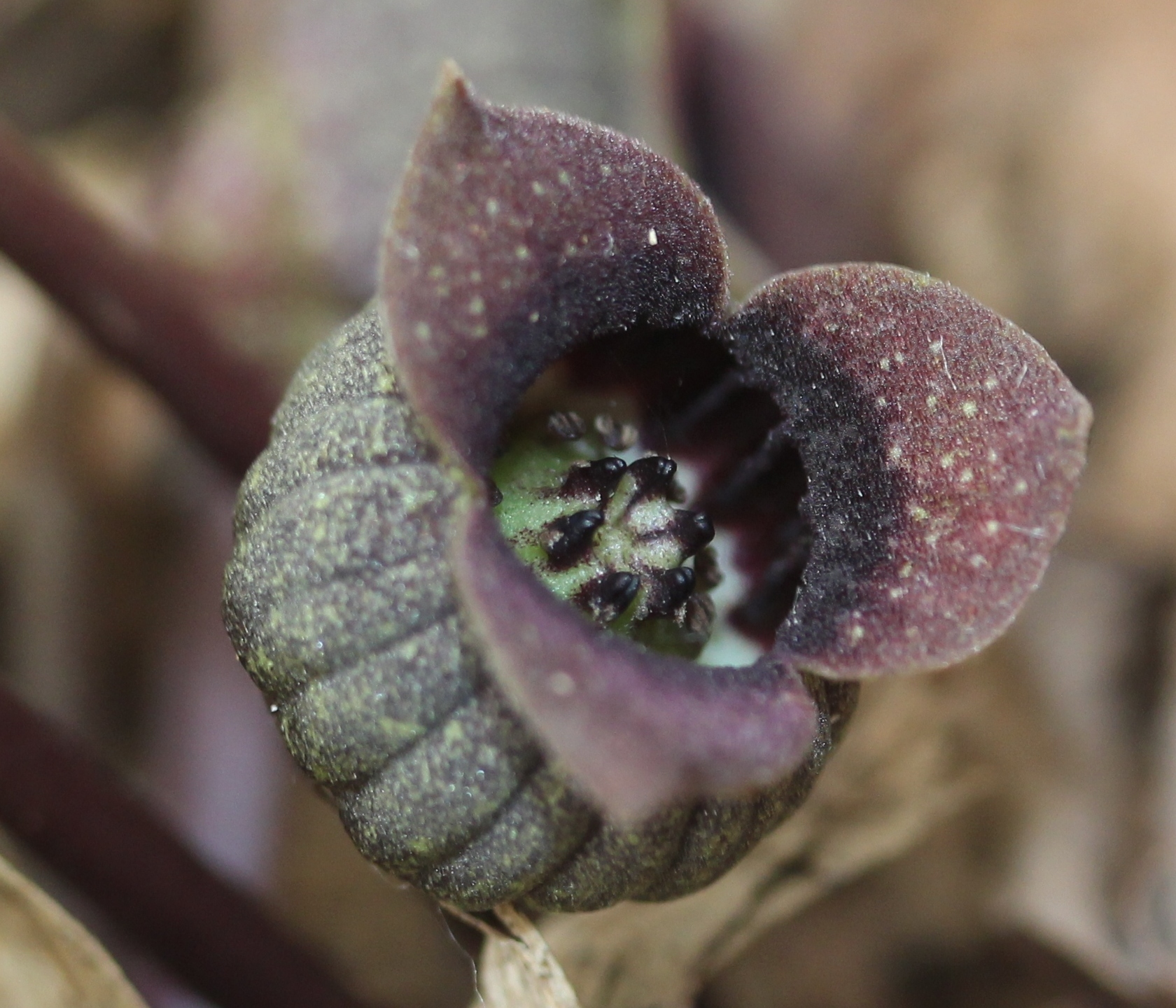 Asarum sieboldii in Mount Ibuki, Maibara, Shiga prefecture, Japan.